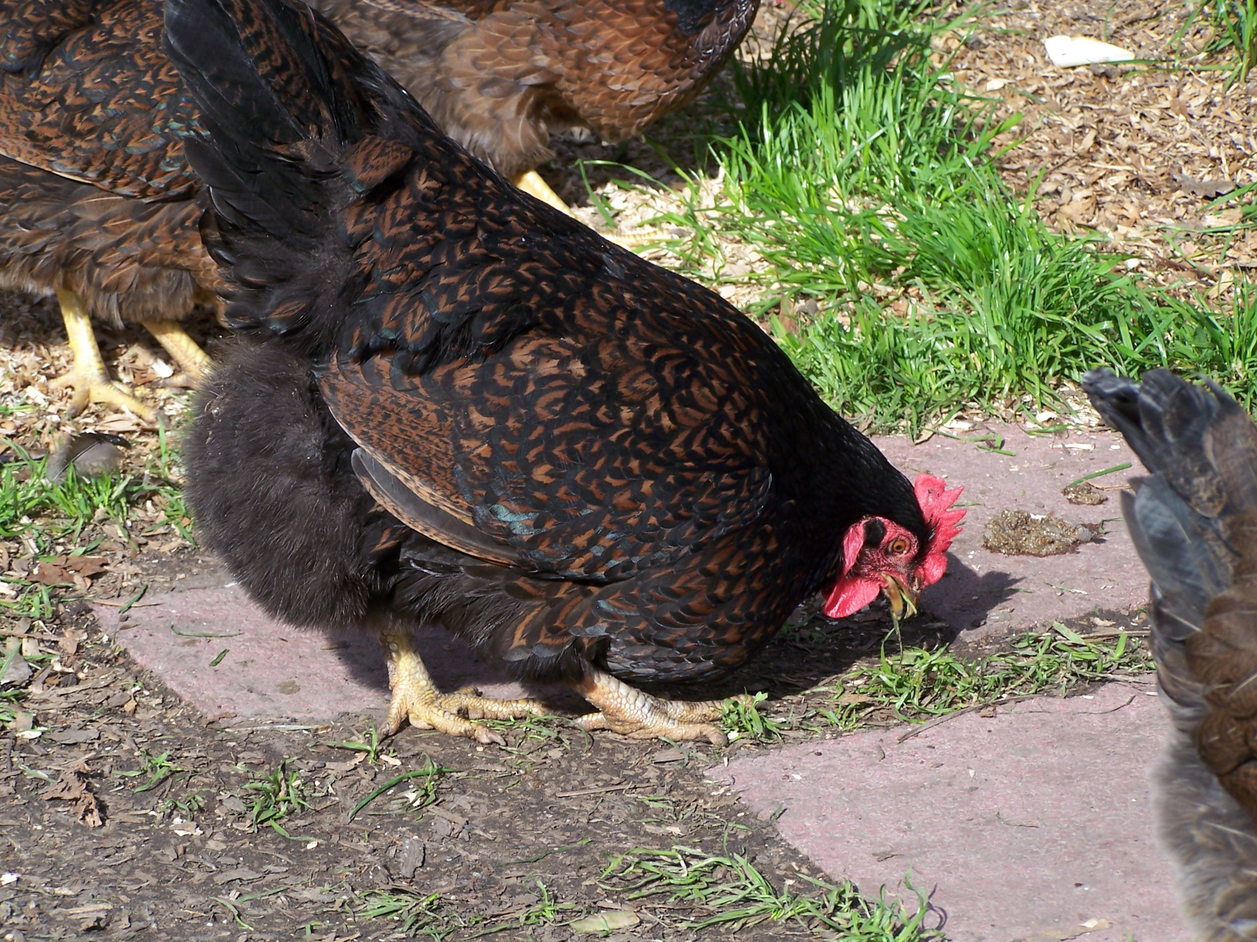 Rare Barnevelder.